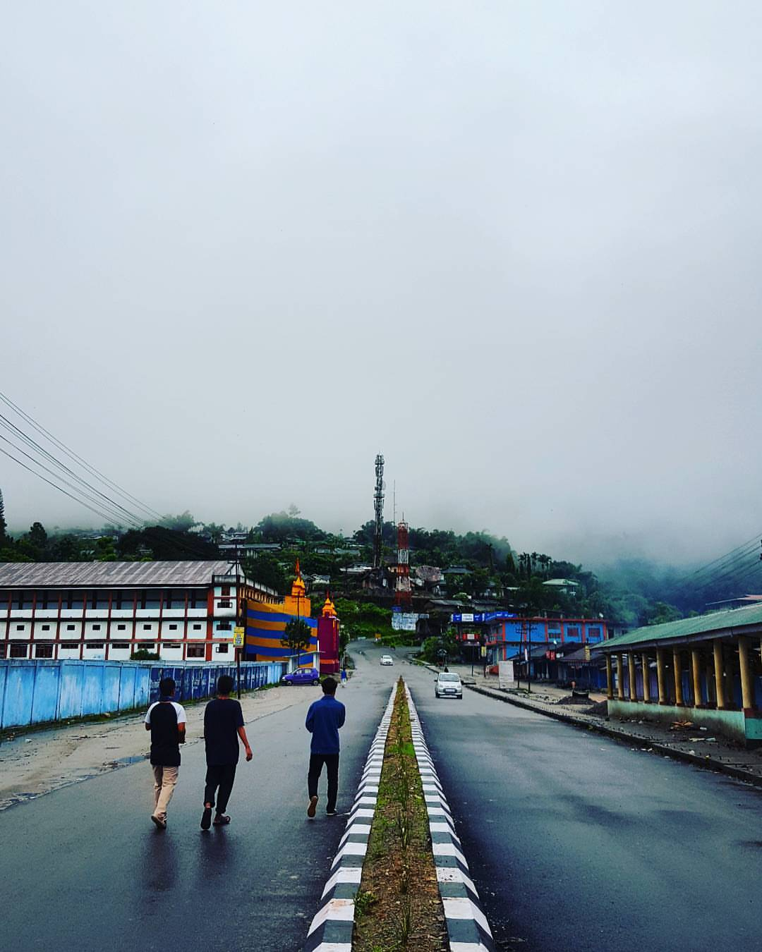 View of Yingkiong Town Market Area